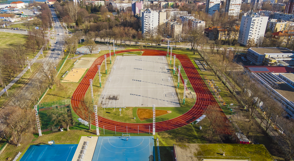 Srednjoškolsko igralište